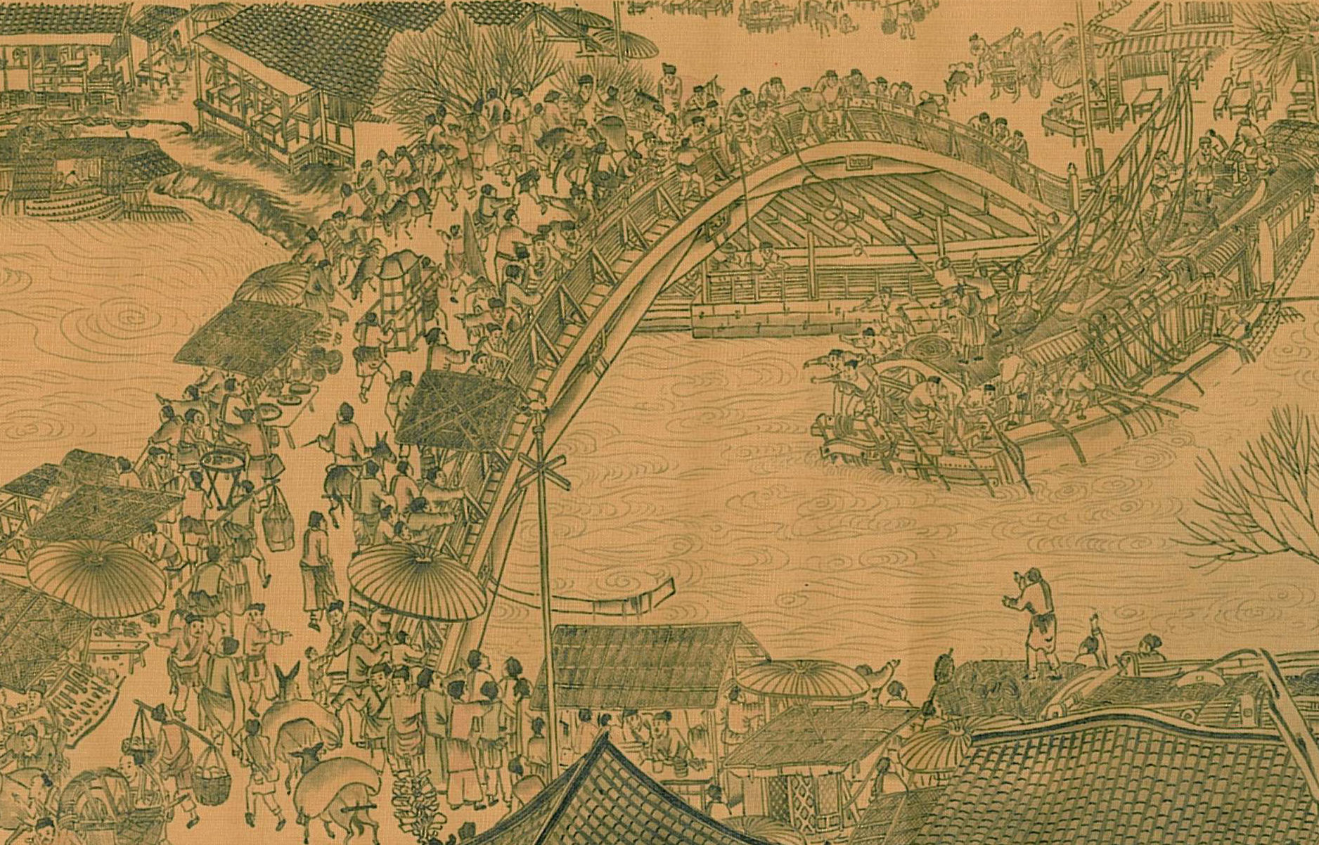 part of the Qingming Scroll